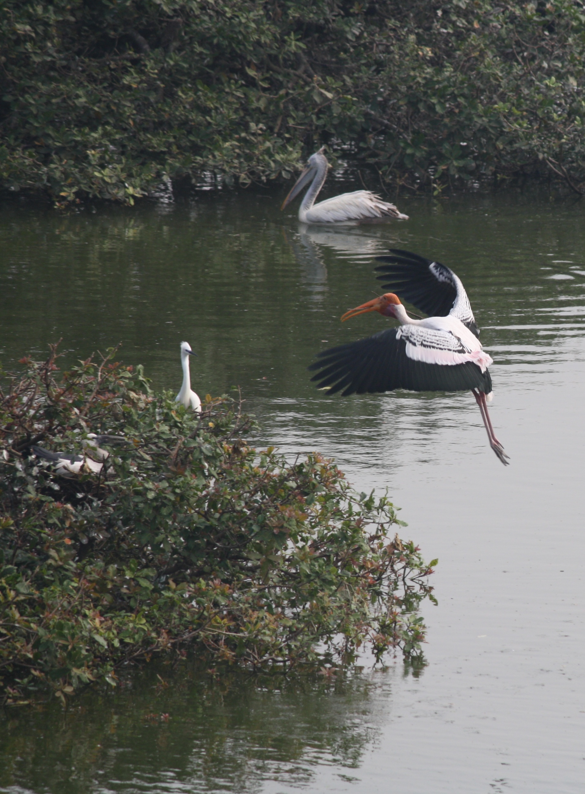 4 birds at Vedanthangal Bird Sanctuary, Tamil Nadu, India. They are, from top to bottom left, Grey Pelican (also known as Spot-billed Pelican, Pelecanus philippensis), Painted Stork (Mycteria leucocephala), Little Egret (Egretta garzetta) and Asian Openbill Stork (Anastomus oscitans).